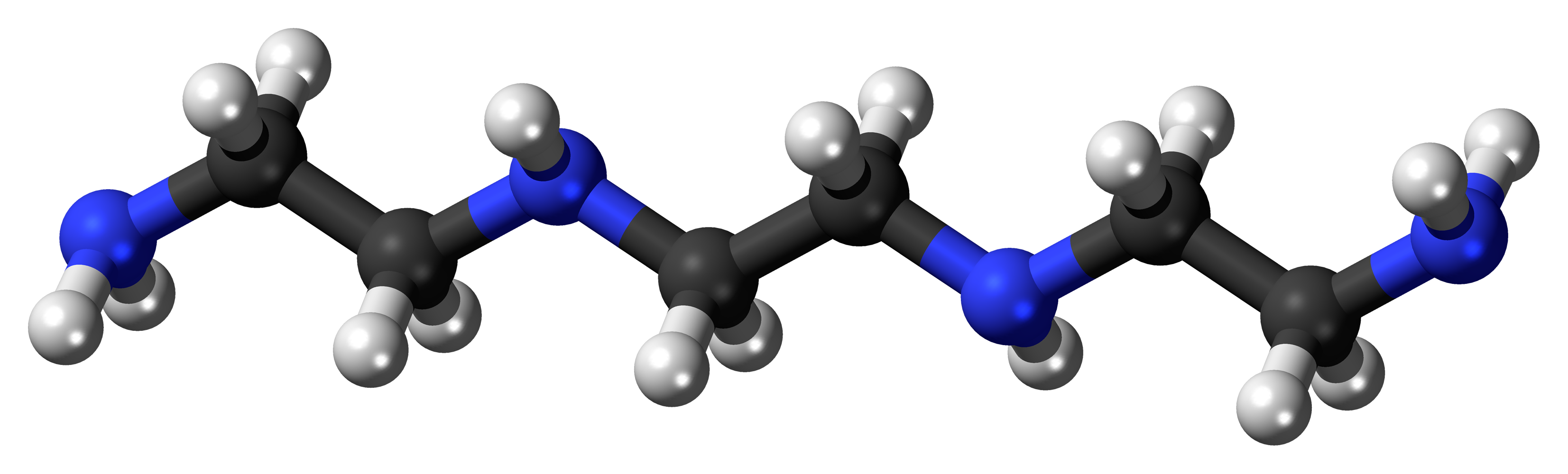 Ball-and-stick model of the triethylenetetramine molecule, an amine used as a ligand. Colour code: Carbon, C: black Hydrogen, H: white Nitrogen, N: blue